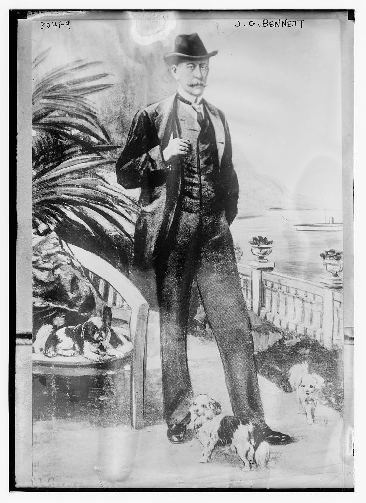 Bain News Service,, publisher. James Gordon Bennett [between ca. 1910 and ca. 1915] 1 negative : glass ; 5 x 7 in. or smaller. Notes: Title from unverified data provided by the Bain News Service on the negatives or caption cards. Forms part of: George Grantham Bain Collection (Library of Congress). Format: Glass negatives. Repository: Library of Congress, Prints and Photographs Division, Washington, D.C. 20540 USA, General information about the Bain Collection is available at Persistent URL: Call Number: LC-B2- 3041-9